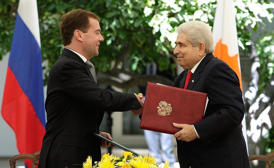 With President of the Republic of Cyprus Demetris Christofias during the signing of cooperation agreements.